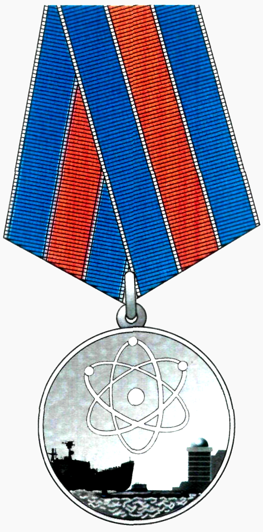 Russian government medal "For Merit in the Development of Nuclear Energy"